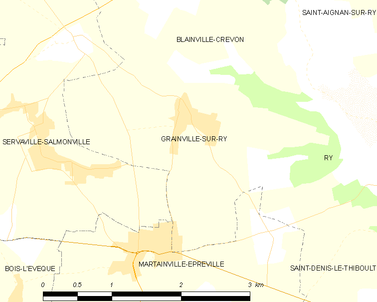 Map of French municipality Grainville-sur-Ry